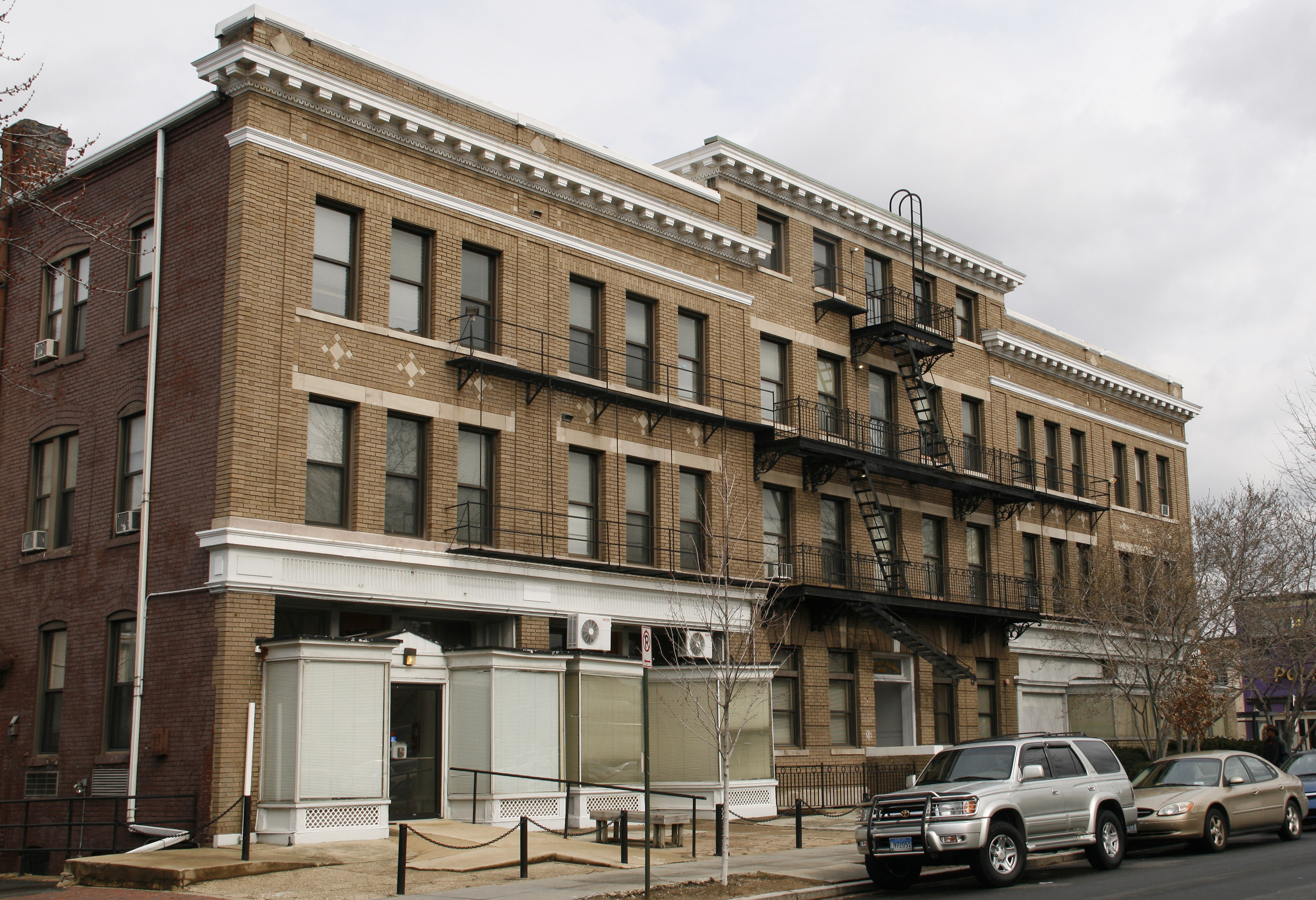 The Whitman-Walker Clinic's former medical facility located at 1407 S Street, N.W., in the Logan Circle neighborhood of Washington, D.C. Originally known as the Hudson Apartment Building, it was designed by the Alfred B. Mullet architectural firm in 1909. The building, a contributing property to the Greater U Street Historic District, was sold in 2008 for $8,000,000. Developers plan to convert it into a condominium.